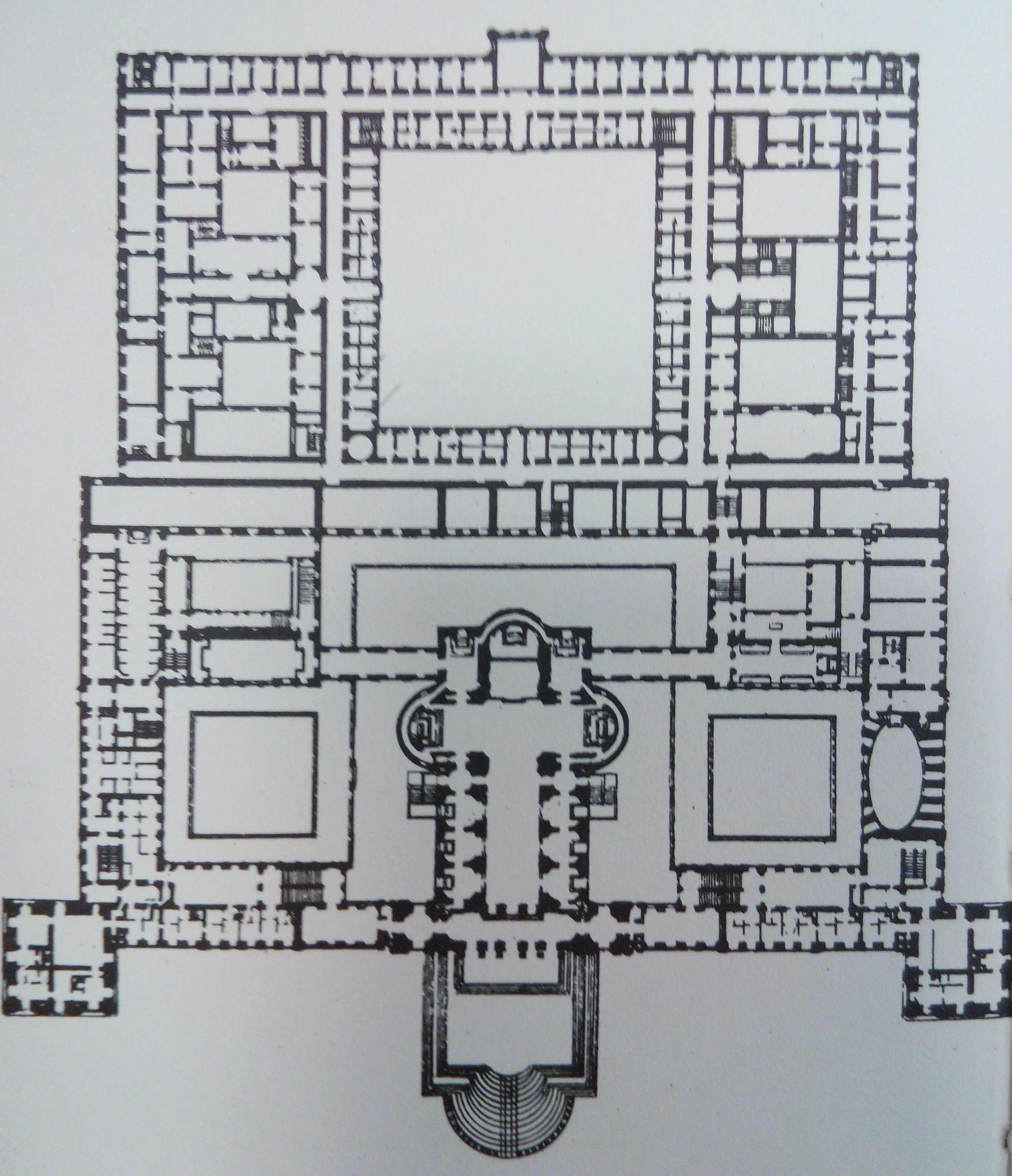 Plan of Palácio de Mafra in Portugal